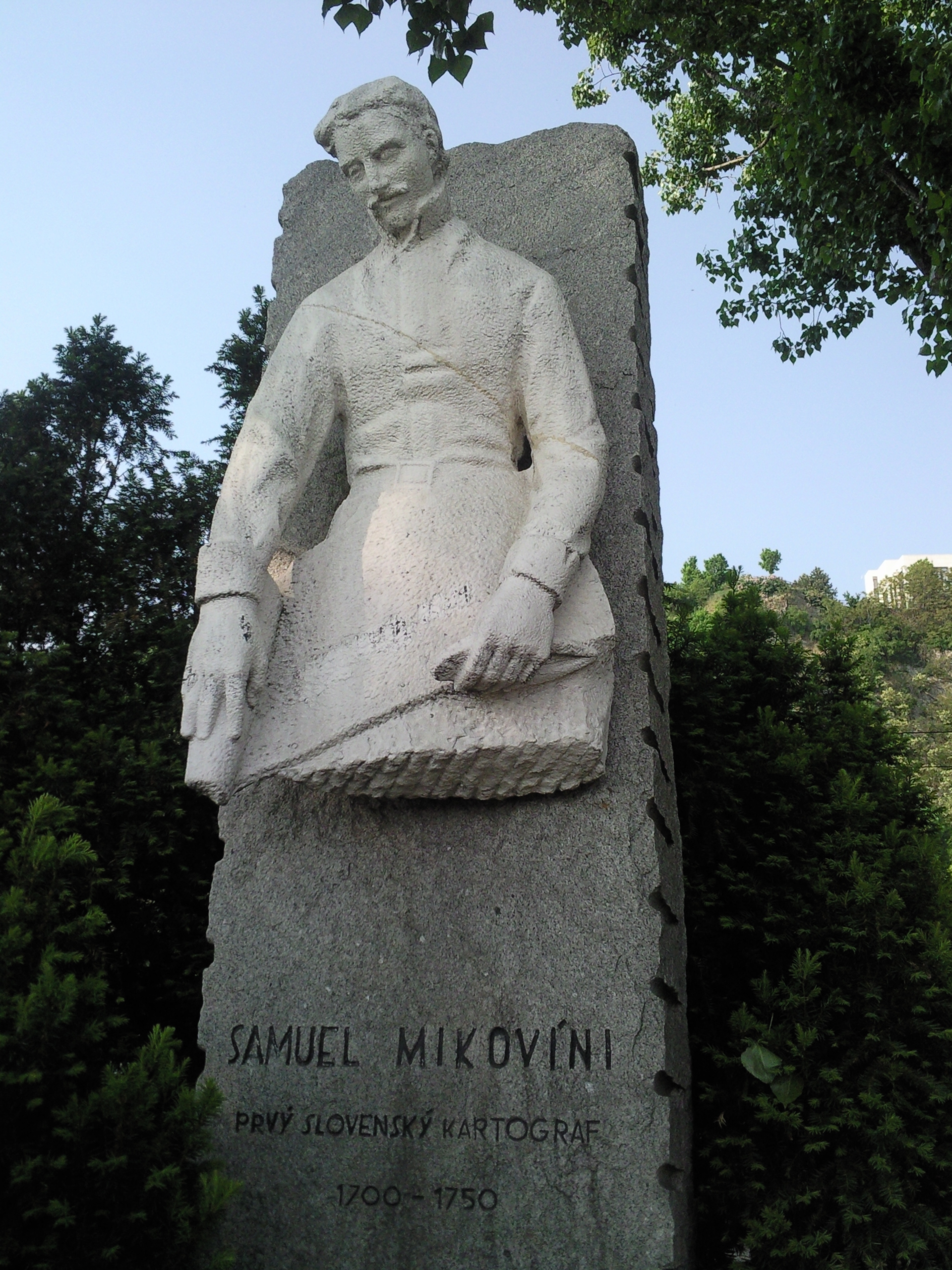 Samuel Mikovíni statue, Bratislava